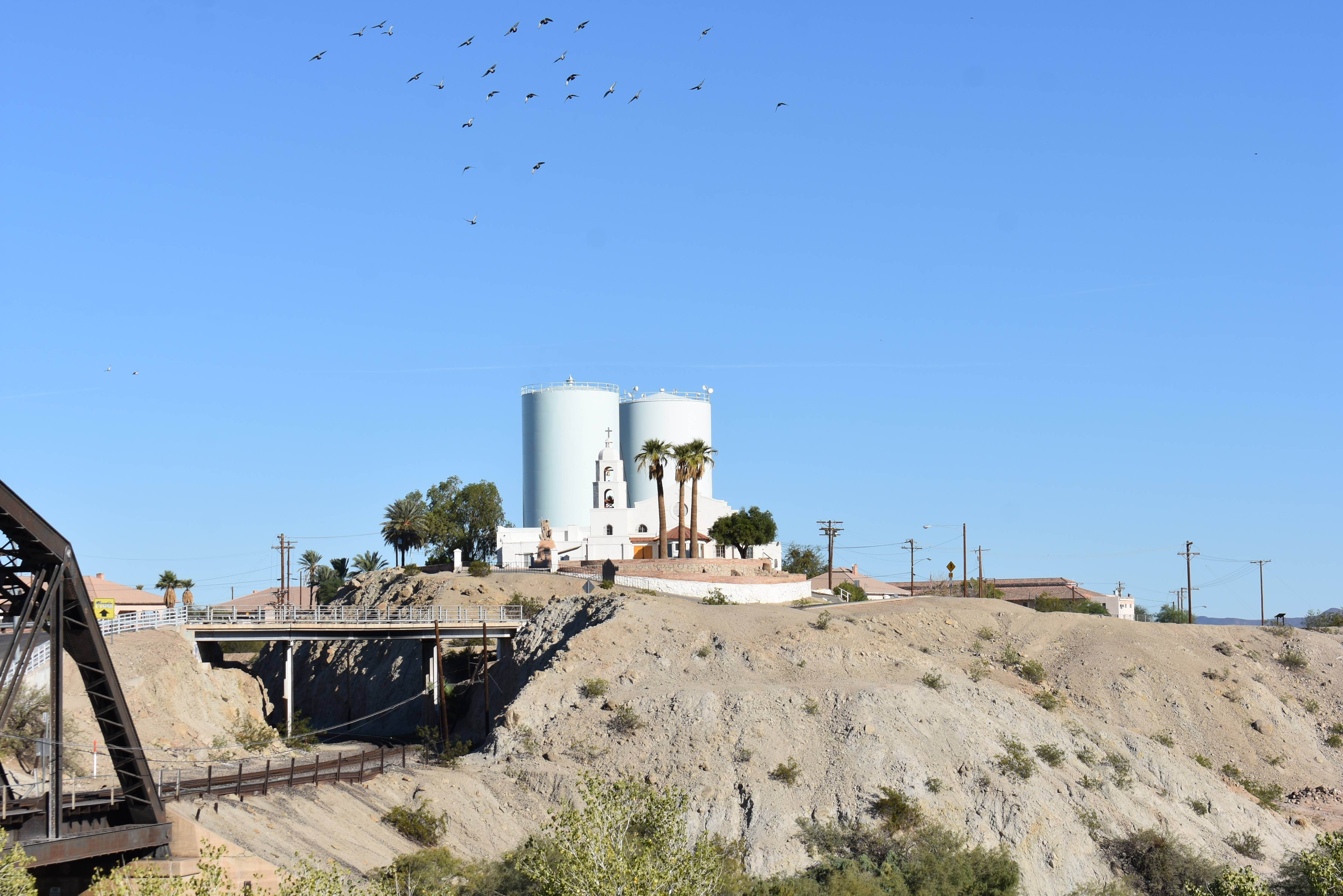 Looking at the Water Storage Tanks stand behind the historic Mission La Purisima Concepcion from the grounds of the Yuma Territorial Prison